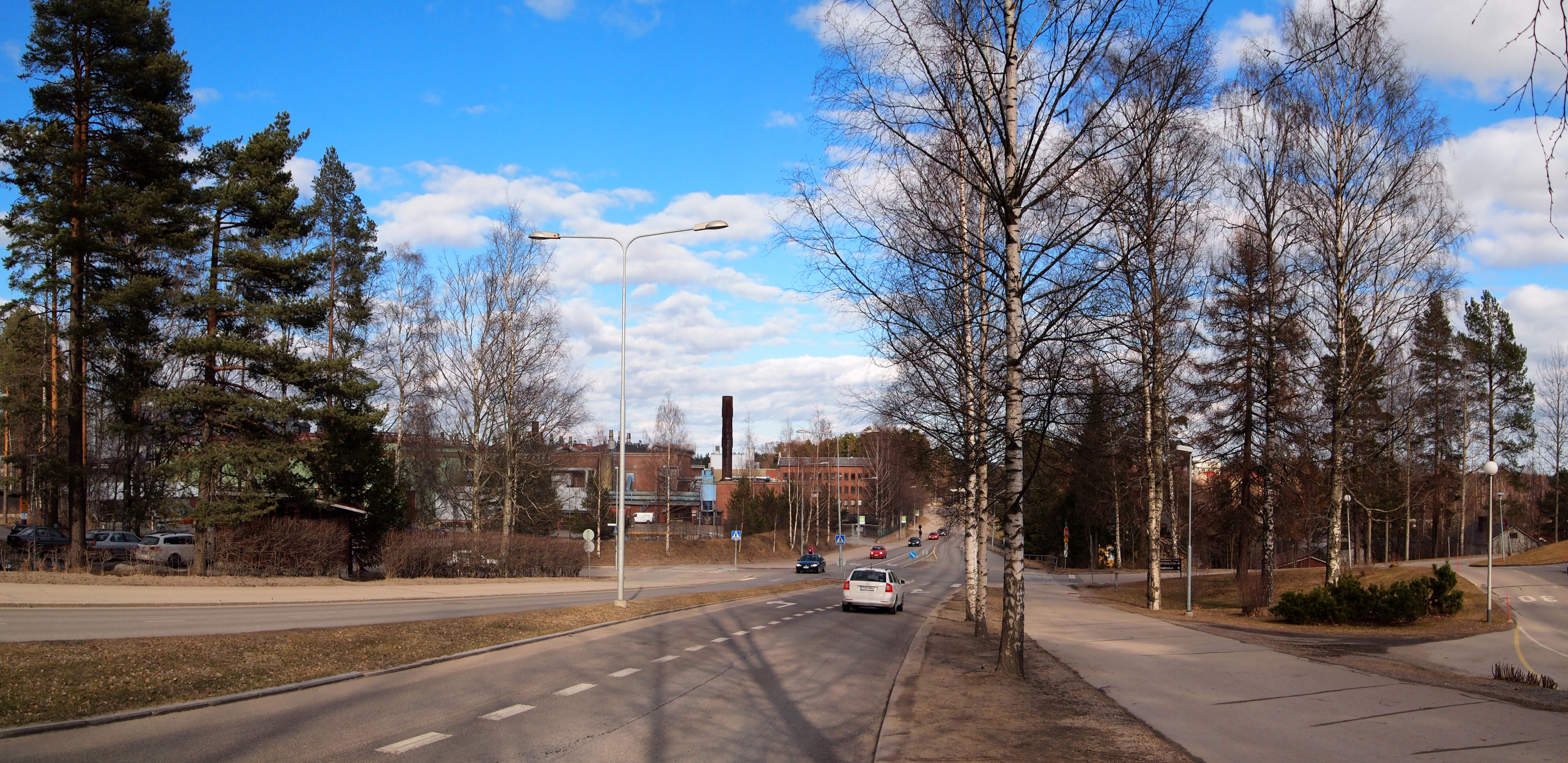 View along the street Keskussairaalantie towards east in Jyväskylä. On the left of the street is the district Mäkimatti and on the right is the district Kukkumäki. This photograph was taken with an Olympus E-PL1